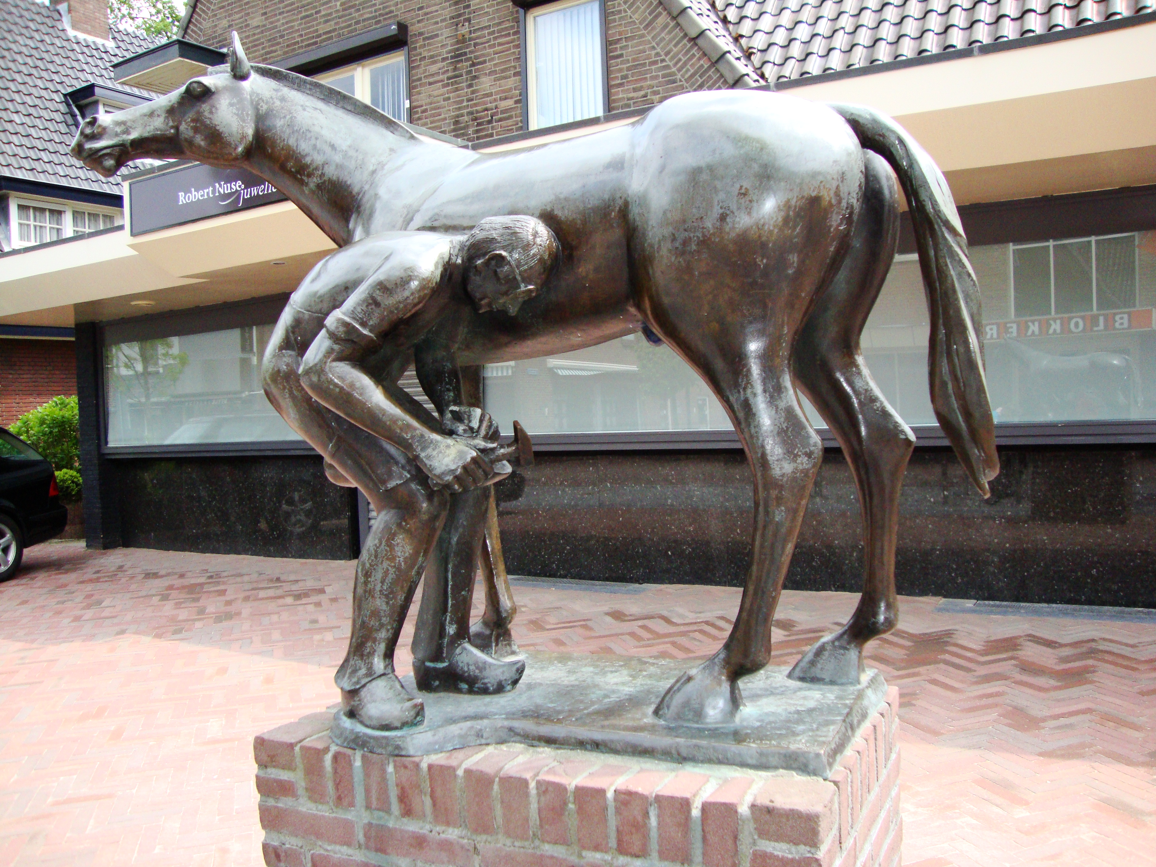 Sculpture De Hoefsmid (The Blacksmith) in Wijchen, Gld, NL, by Henk Göbel and Marga Carlier, artists, 1986, commemorising the blacksmith Jan Moors.